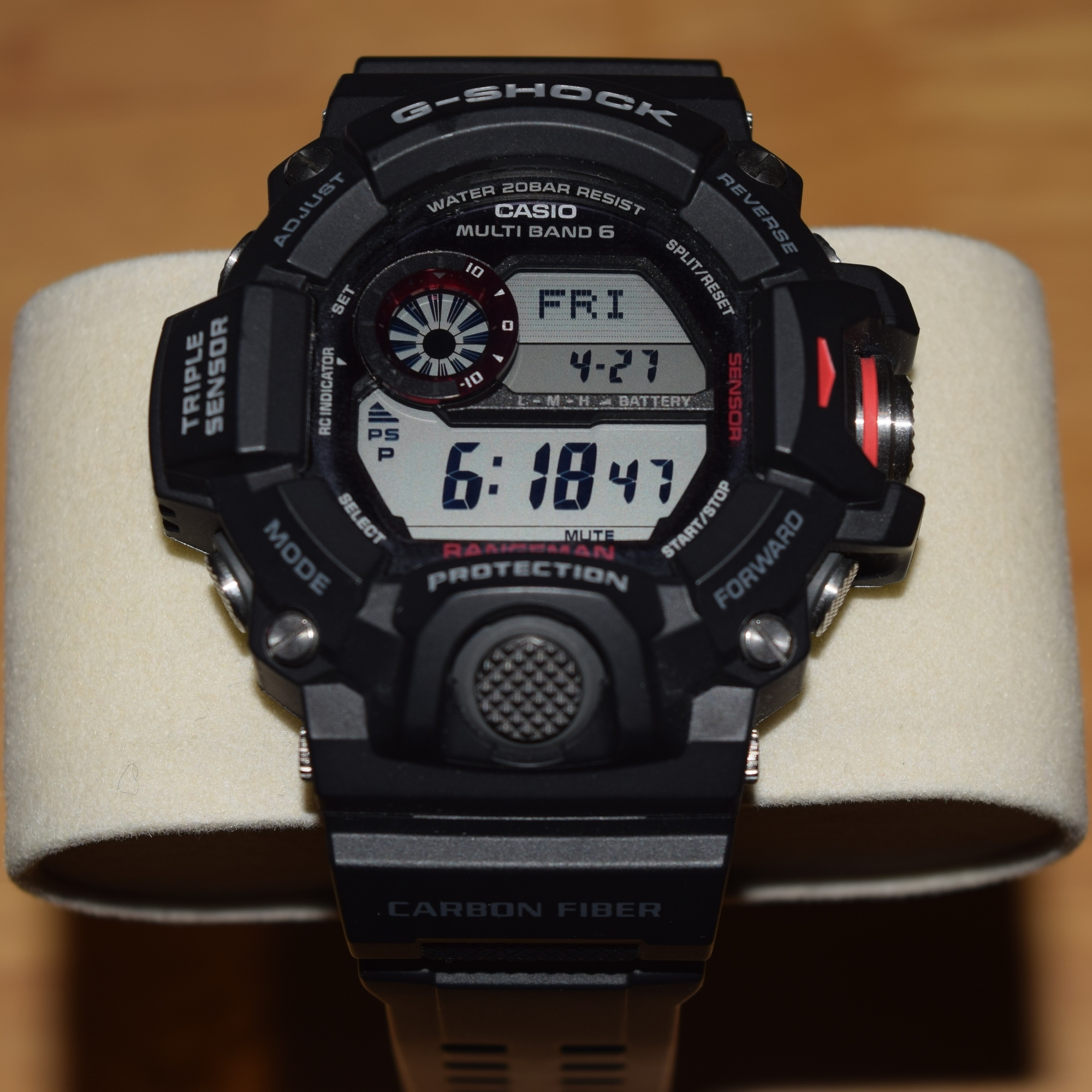 Casio G-Shock Master of G Rangeman GW-9400J-1JF